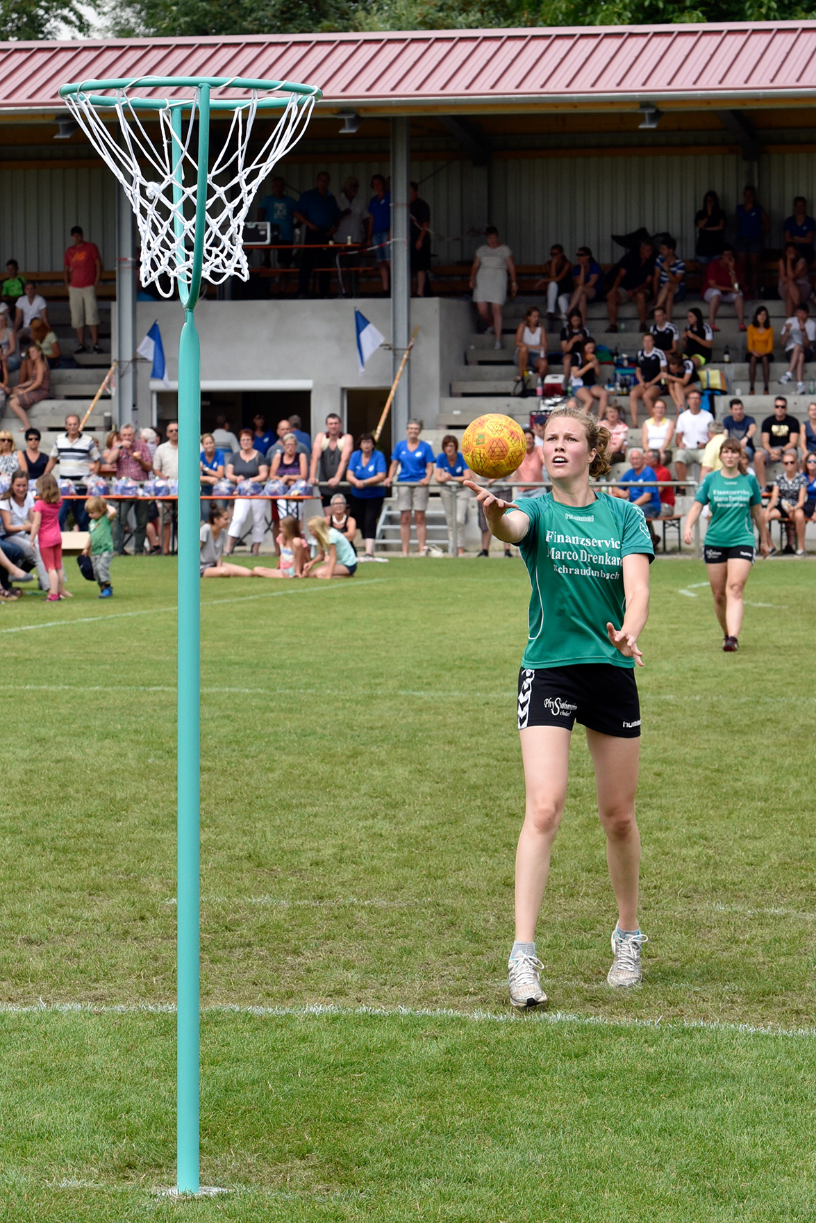 Jennifer Rumpel (SV Schraudenbach) beim Ausführen eines Strafwurfs im Spiel gegen den TSV Bergrheinfeld bei den Bayerischen Meisterschaften im Feldkorbball 2016 in Euerbach. Beim Stand von 3:4 aus Sicht des SV Schraudenbach verfehlte der Strafwurf nur Sekunden vor Spielende den Korb und der SV Schraudenbach, dem ein Unentschieden zur Meisterschaft gereicht hätte, musste den Titel dem TSV Bergrheinfeld überlassen. Mit insgesamt 7 Treffern war Jennifer Rumpel dennoch die beste Schützin des Turniers in der Altersklasse der Frauen.